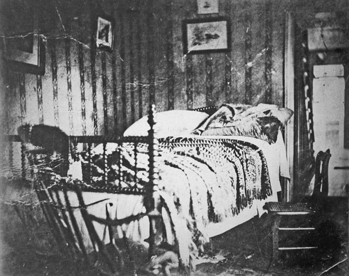 Bed in which Abraham Lincoln died, in the Petersen House, Washington, D.C.